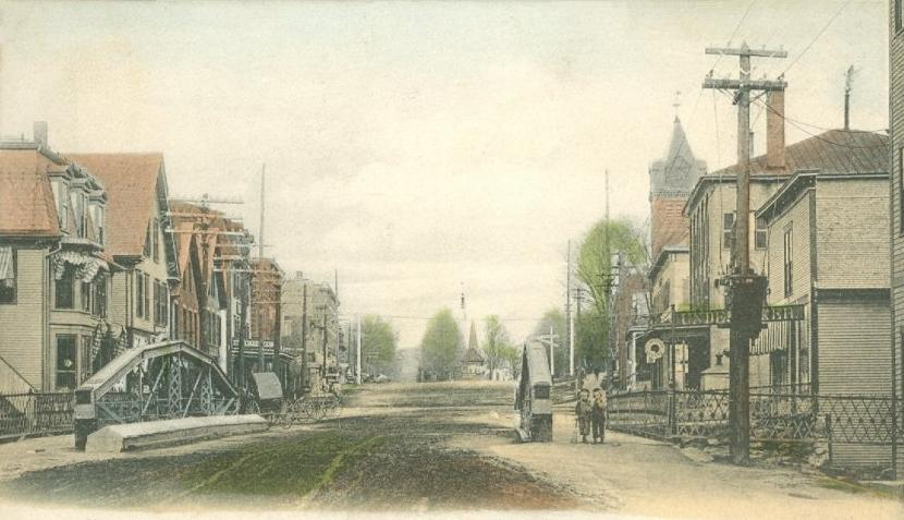 Main Street, looking north, Newport, New Hampshire